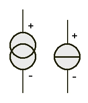 Symbols for electricity sources.